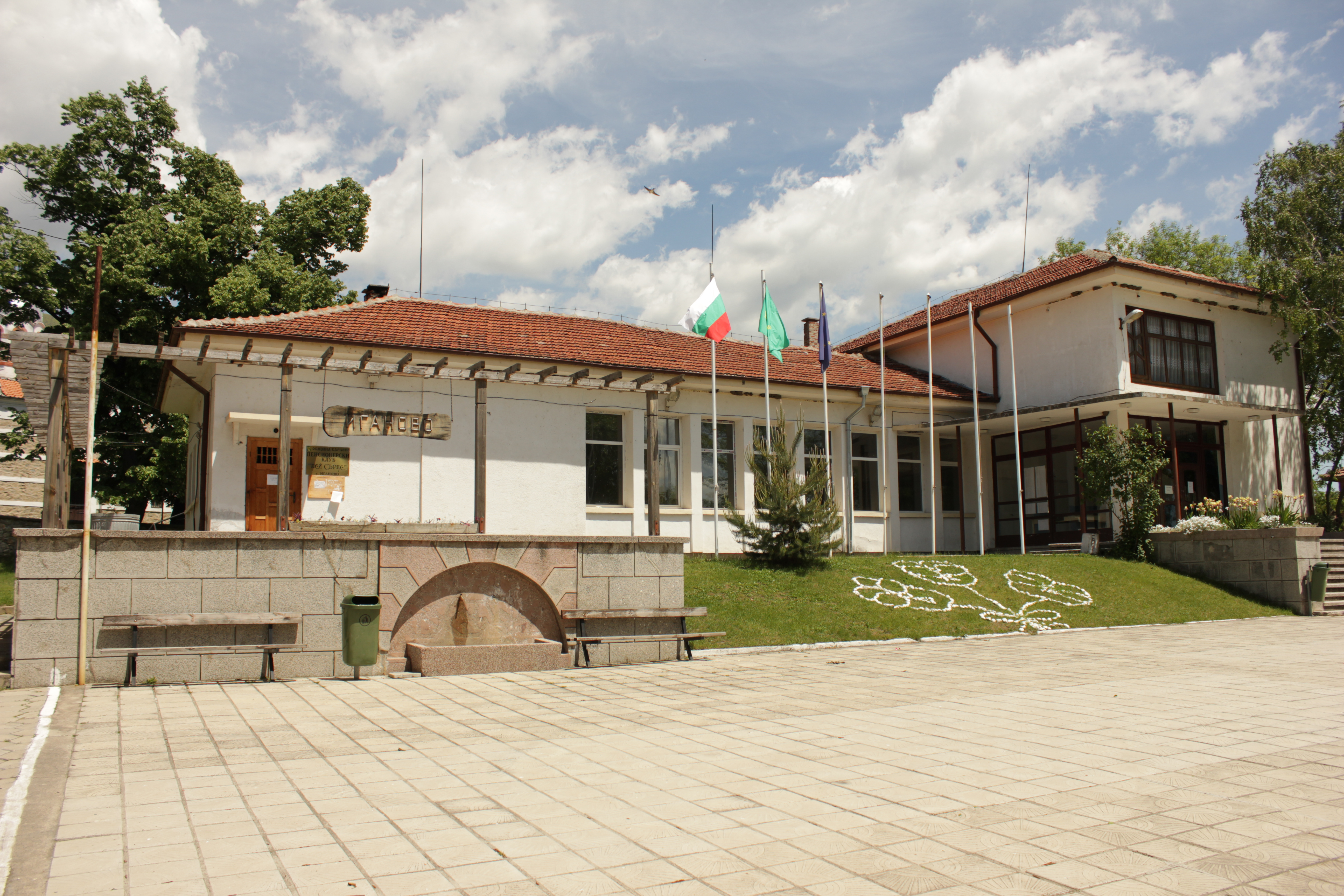 Iganovo Municipal office